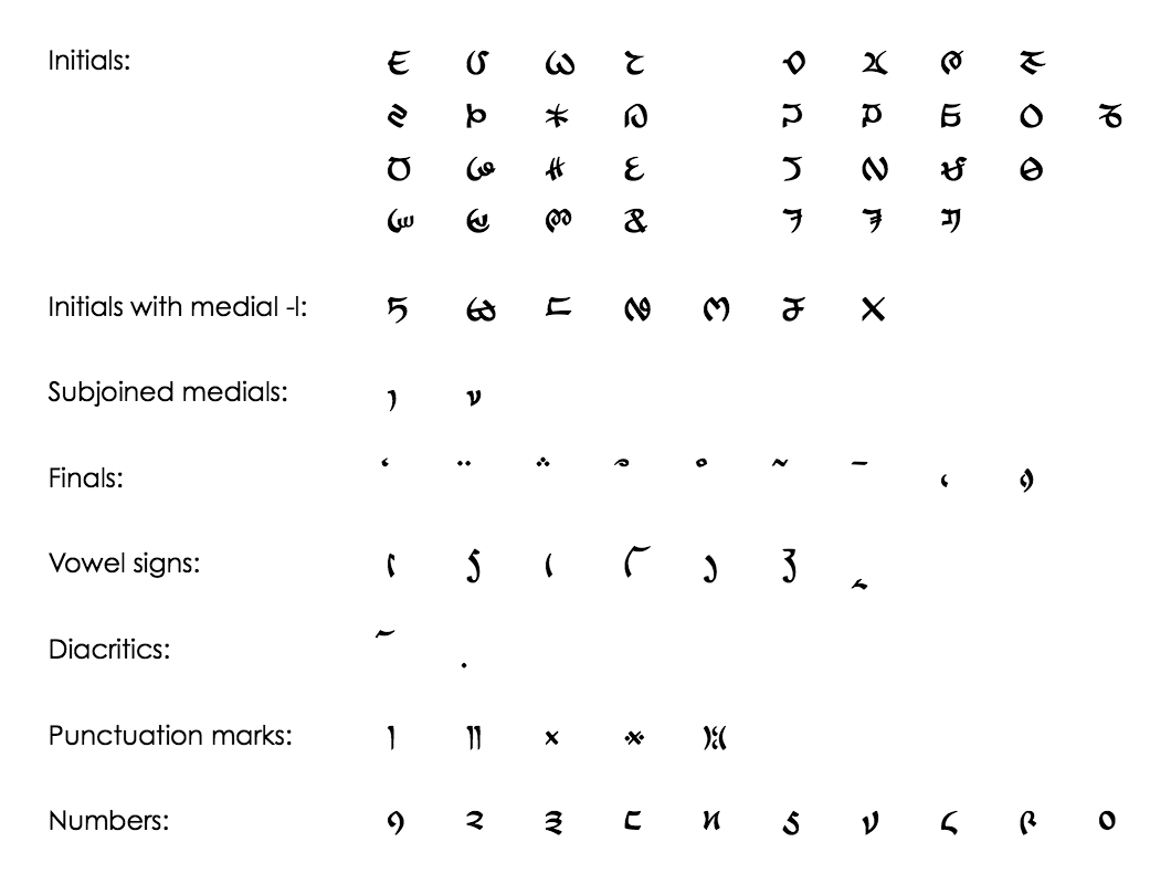 Summary of the Lepcha characters in Unicode (Block 1C00 - 1C4F)